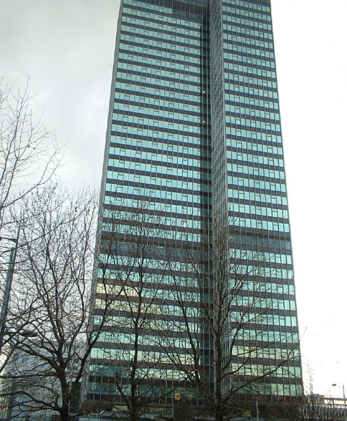 Euston Tower, London. Taken by C Ford March 04.